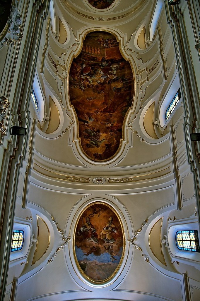 Affreschi della Chiesa della Natività della Beata Vergine Maria, duomo di Ascoli Satriano